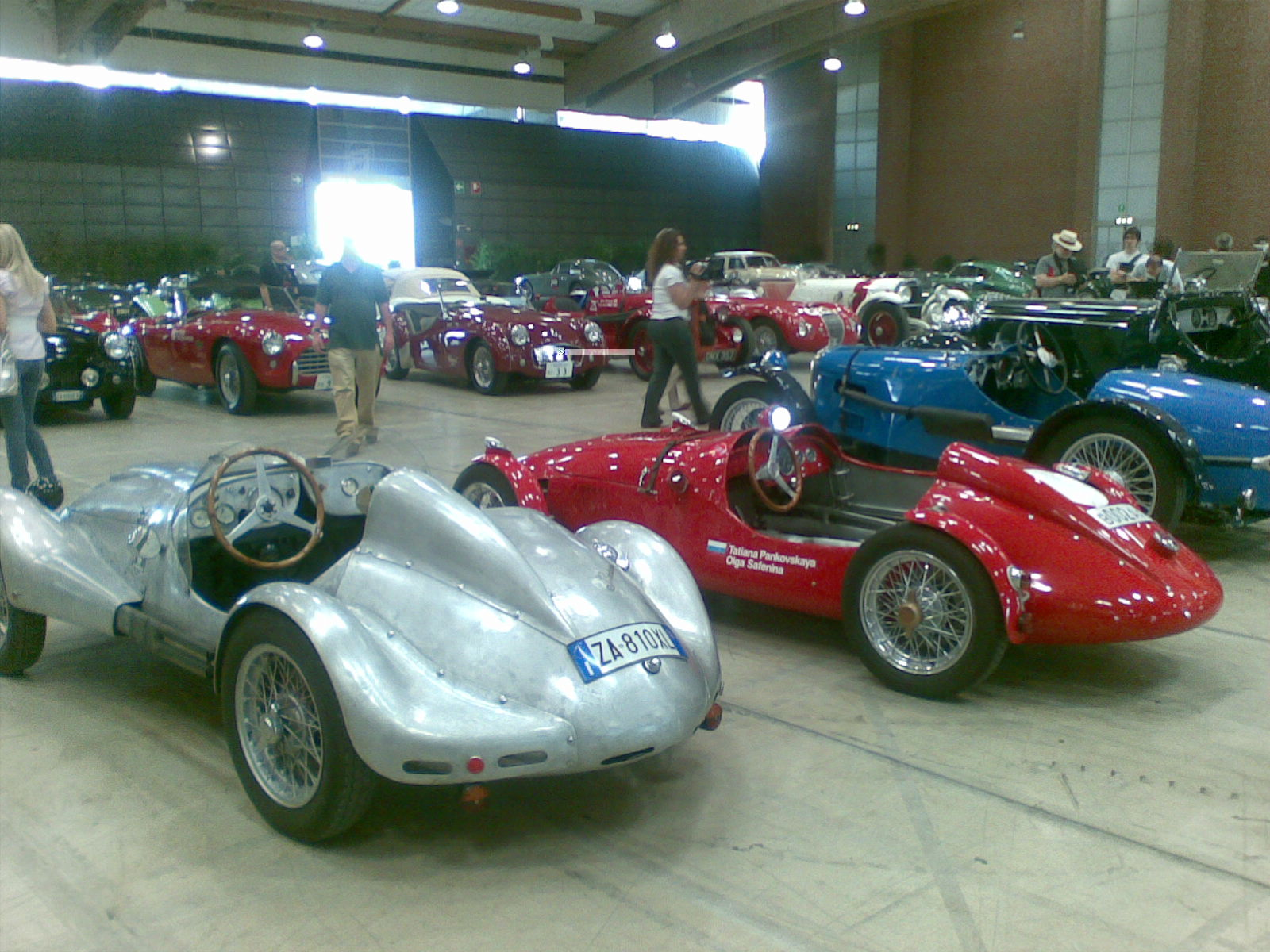 Due Bandini 750 sport siluro al paddock della Mille Miglia 2008 foto personale, maggio2008 Italia